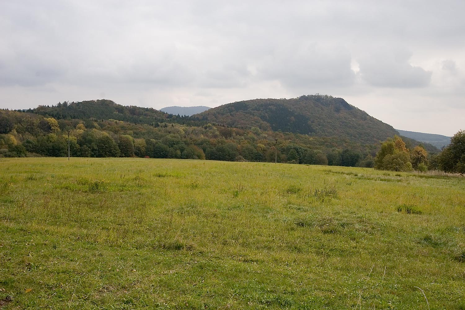 Kalich Castle near Třebušín - the castle hill as seen from road to Řepčice